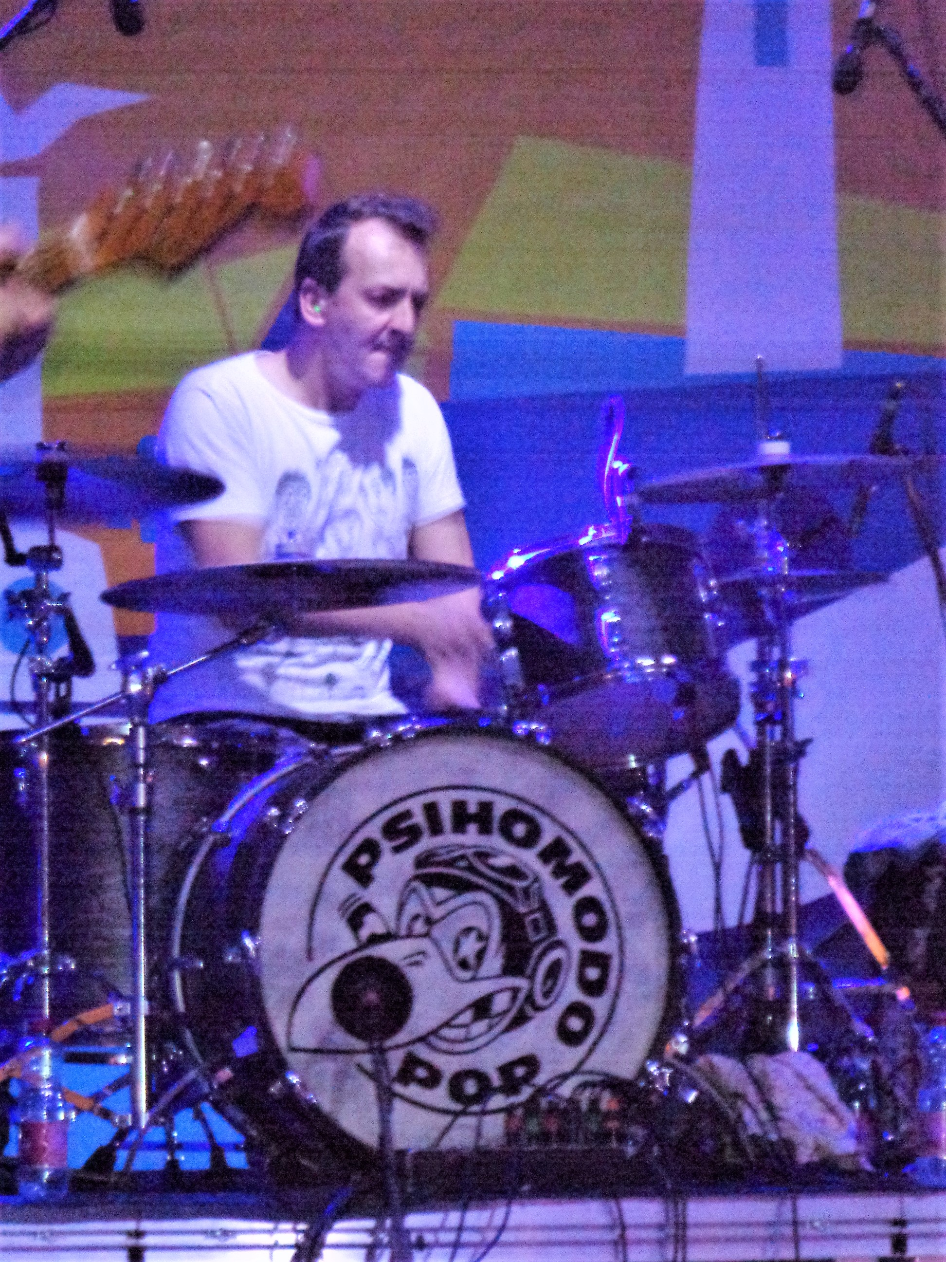 Psihomodo pop concert in Čakovec, Croatia, 06.07.2019. - Tin Ostreš